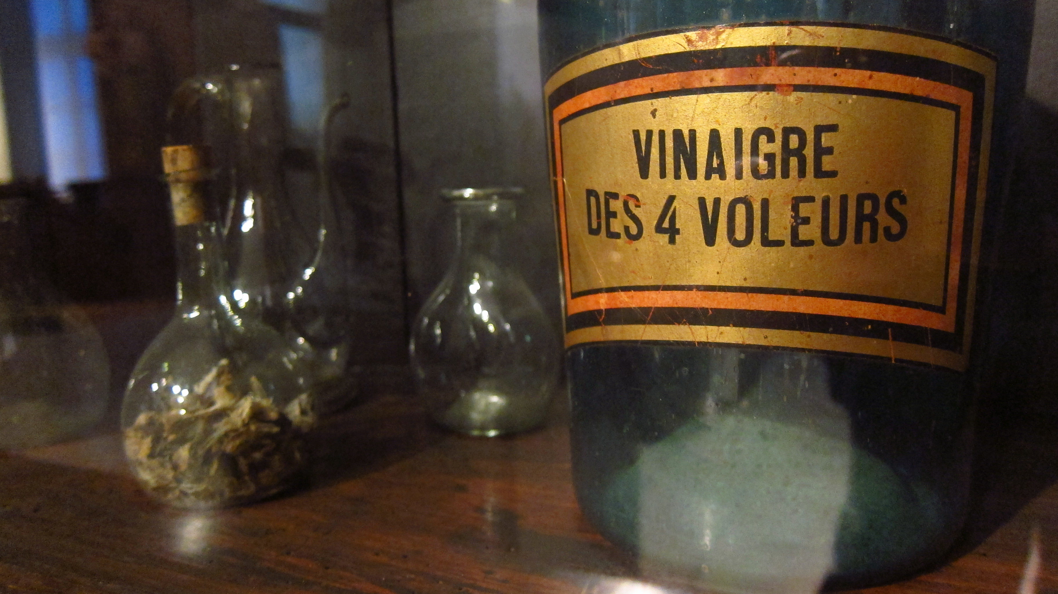 Toulouse (Haute-Garonne, France) : A bottle for "Four Thief Vinegar" (or "Vinegar of the Four Thieves") at the Paul-Dupuy museum.